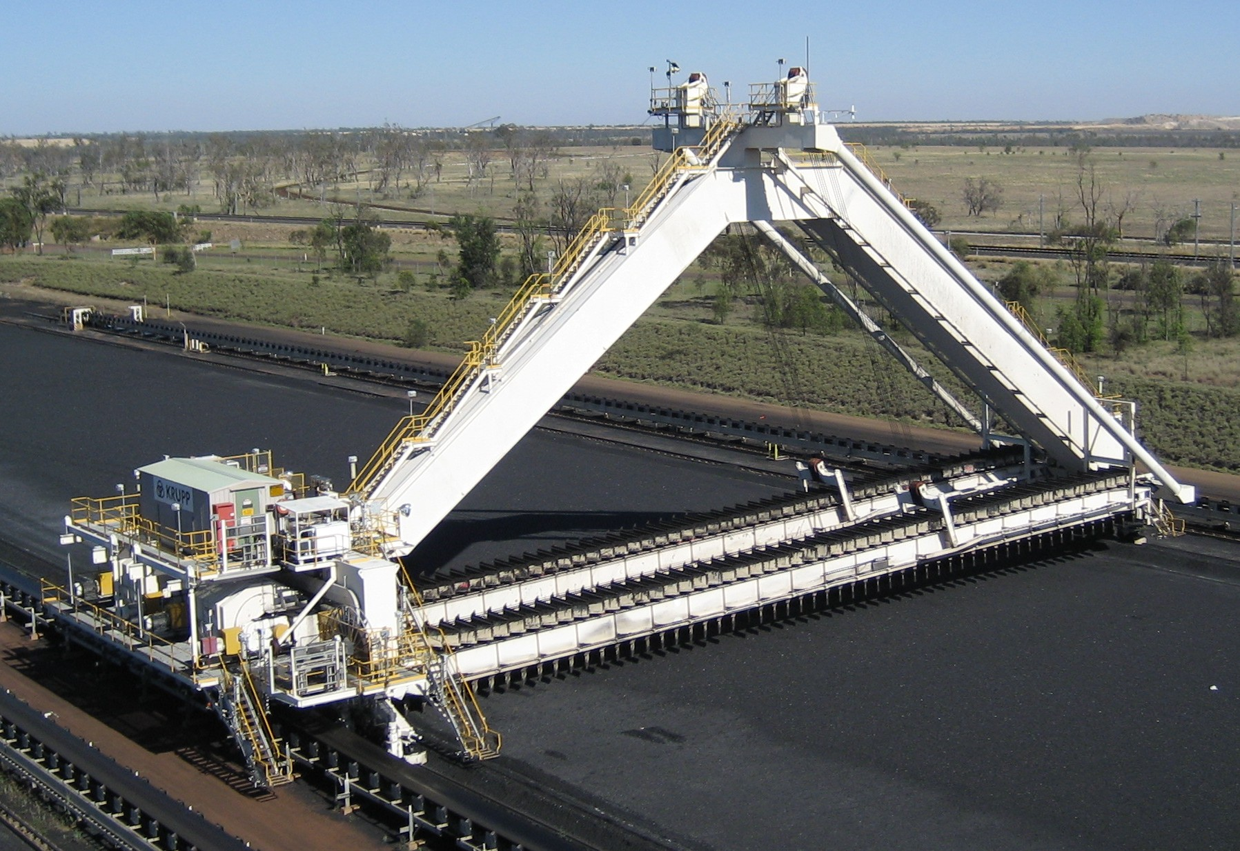 Krupp twin boom portal reclaimer located at RTCA Kestrel Mine, Emerald, Queensland.